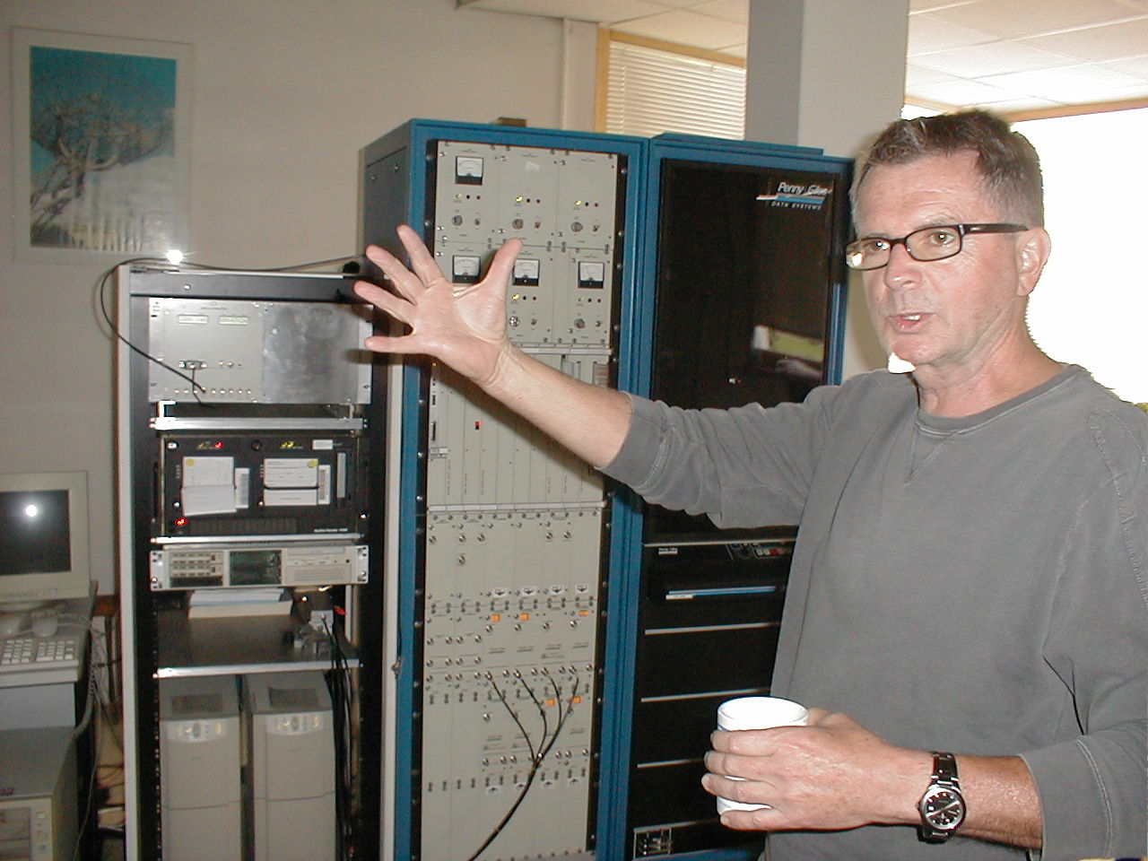 Aleksander Wolszczan, Piwnice Observatory (Toruń), Poland